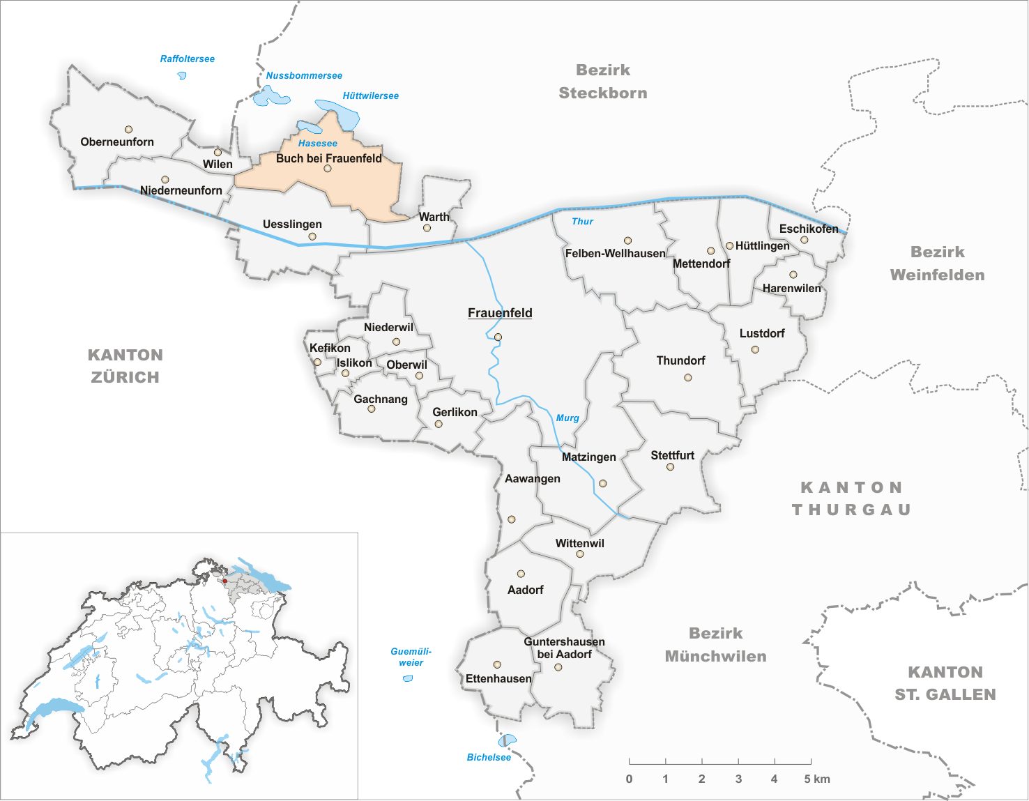 Municipality Buch bei Frauenfeld